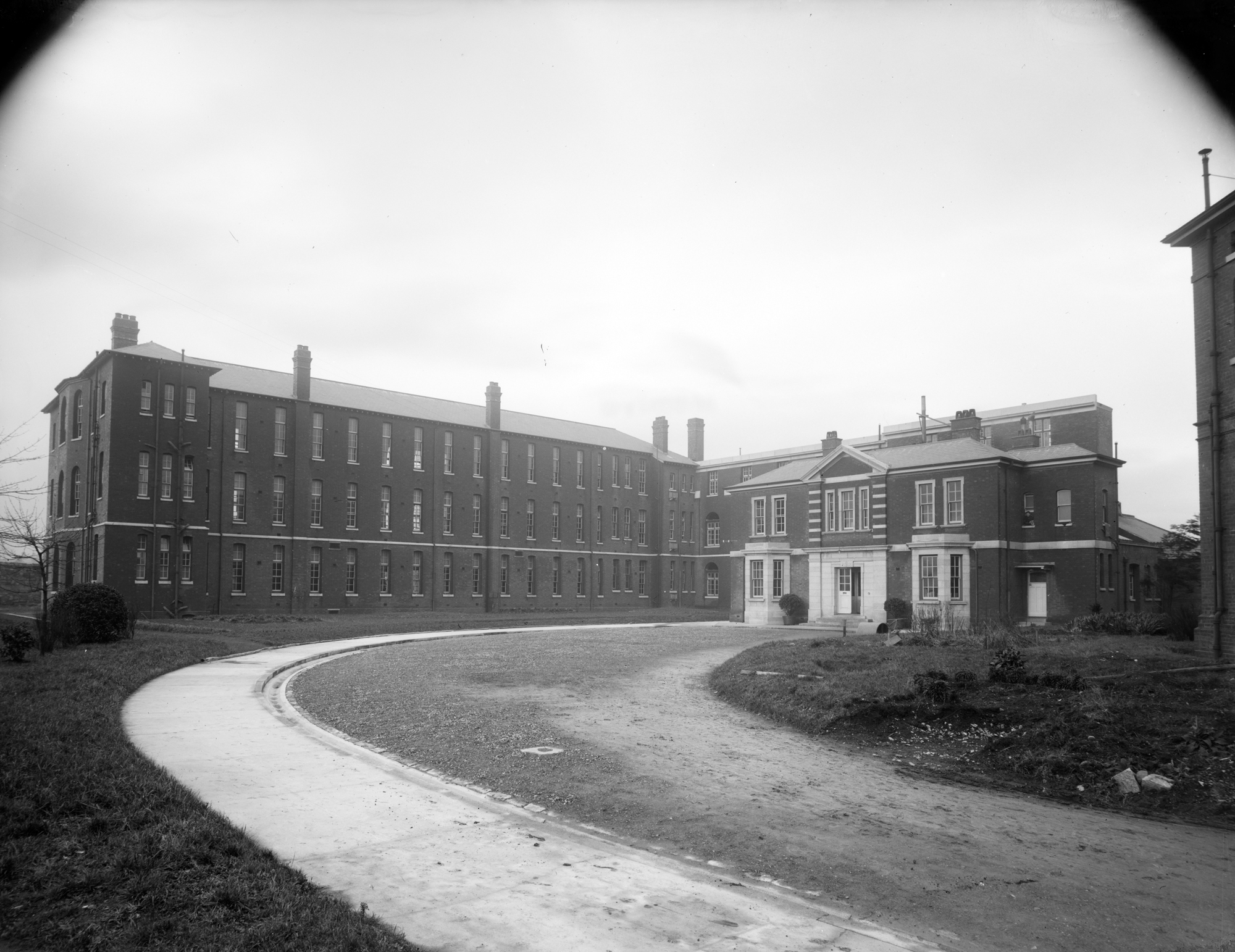 Not much information to go on here, it looks like it may be a school with a monastery / convent alongside?. I am sure as usual you will provide all the details needed. Good luck with your investigations. (editor:between 1907-1913 per comments on flickr). This is Saint Bricins Military Hospital on Arbour Hill, Dublin. When it was built 1909 it was simply called Arbour Hill Military Hospital, in 1912 it was renamed King George V Military Hospital to commemorate a visit to Ireland by the King. Handed over to free State army in 1922 it was later renamed St Bricin's Military Hospital Photographer: Fergus O’Connor Collection: Fergus O’Connor Collection Date: None provided NLI Ref: OCO 234 You can also view this image, and many thousands of others, on the NLI’s catalogue at